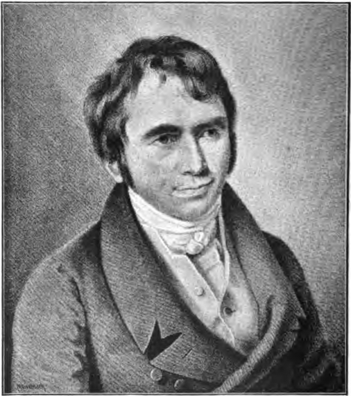 August Neander. Lithograph by Gentili after a drawing by Fr. Krüger.